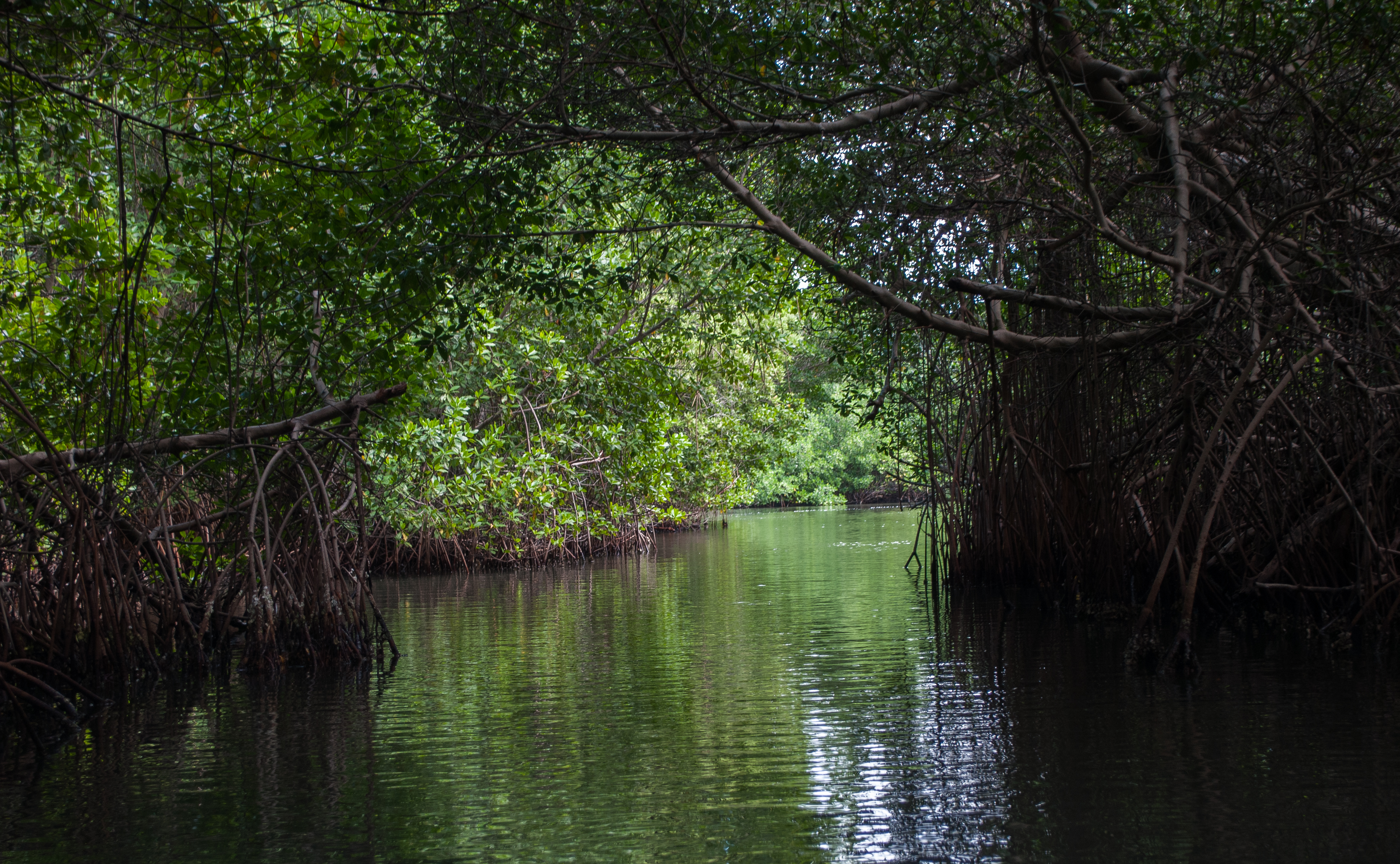 La Restinga Lagoon